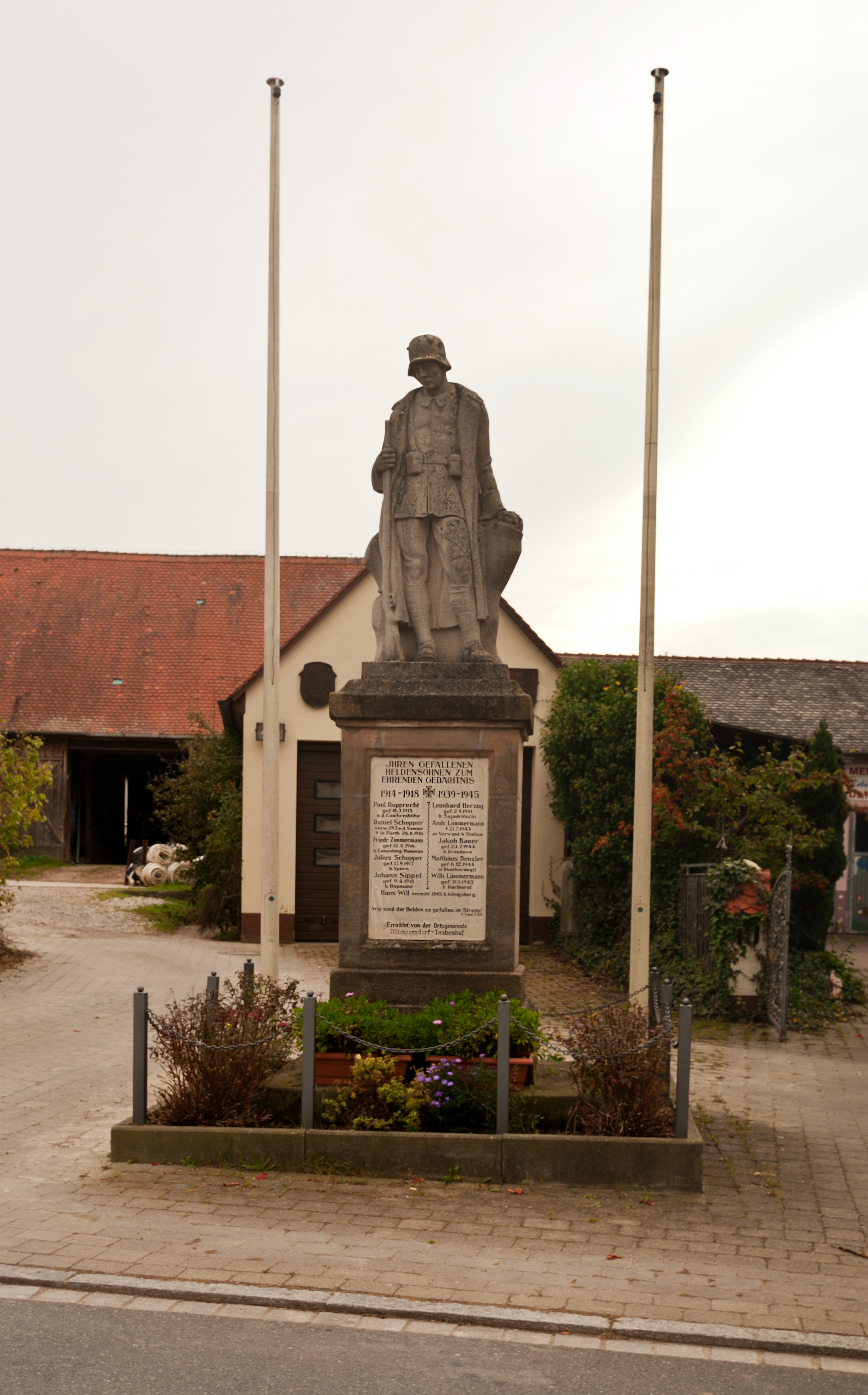 This is a photograph of an architectural monument.